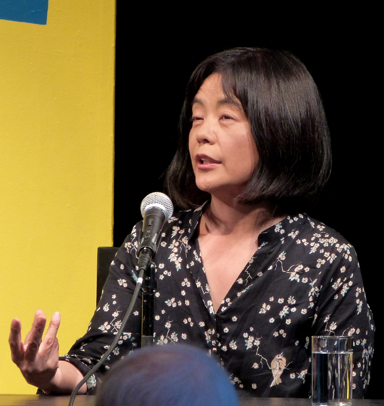 Japanese author Yōko Tawada, at the Erlanger Poetenfest 2014.